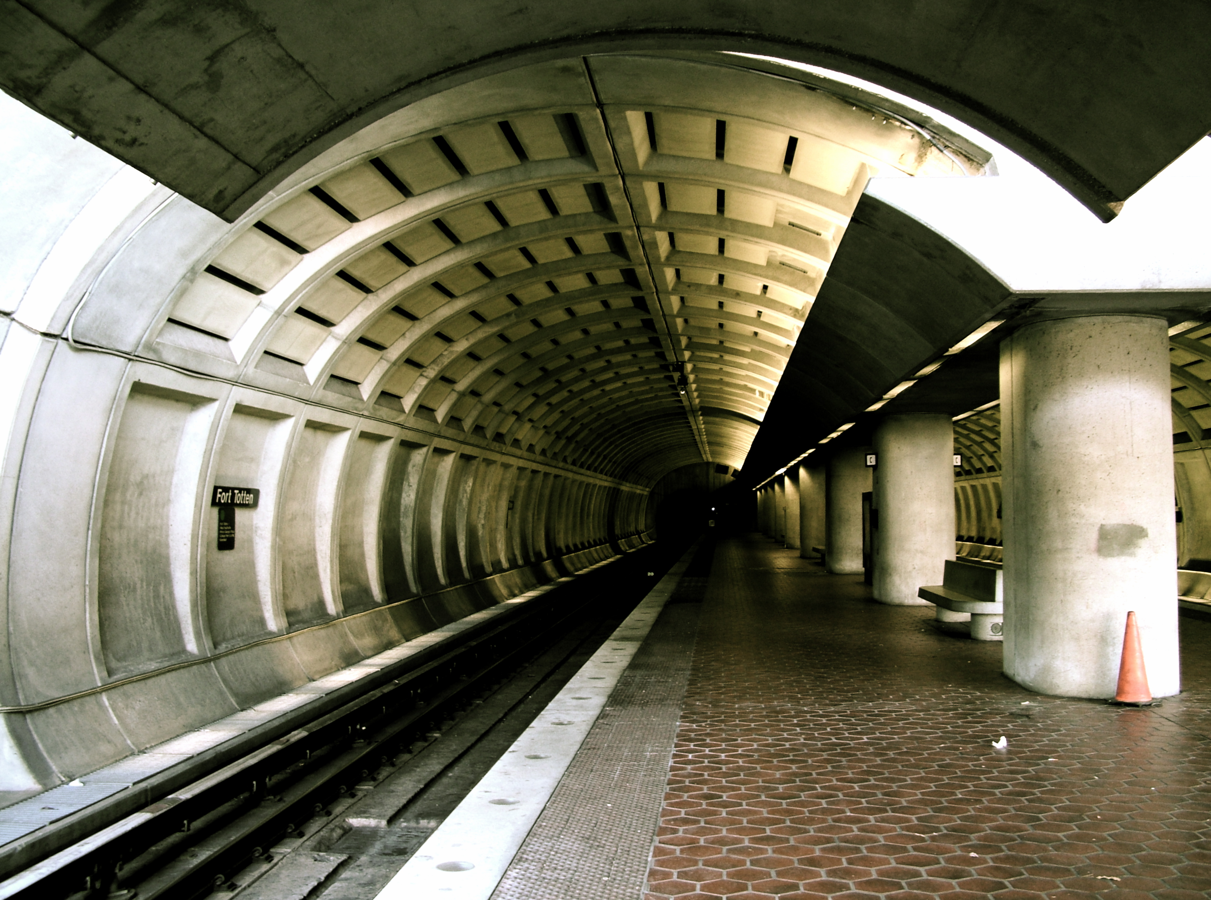 Fort Totten Original description: As soon as I took this photo an older gentleman came over to talk to me. Apparently, seeing a camera reminded him of his younger days. He had traveled the country taking photos. He started telling me about going to woodstock, and then about the draft. He told me about being in the 101st Airbourne in Vietnam, about hanging out in the 9th Ward during Mardi Gras, about walking into Disney World for free one summer borrowing his roommate's school bus driver shirts, and about what is is like to be from the mountains of West Viriginia and be from a small family with only 11 kids. I was going to take his photo as well, but a train came and he left before I got a word in edgewise. He did tell me though, that like in Smokey and the Bandit, his name was Jerry Reed. All these memories; all apparently brought to mind from seeing a camera.